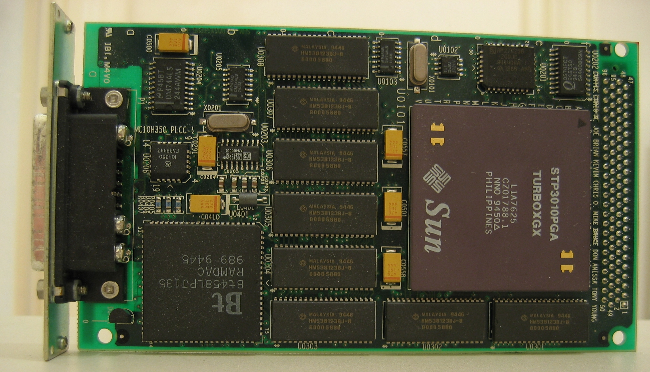 Sun SBus framebuffer cgsix (also known as LEGO)